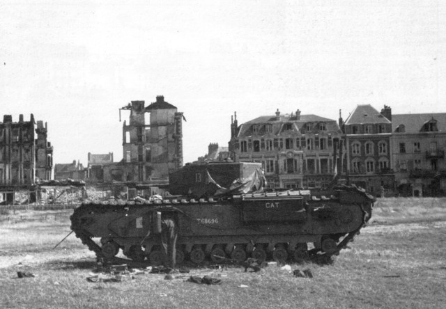 View of the waterfront of Dieppe, France, following the British raid. A knocked out Churchill tank is visible in the center.